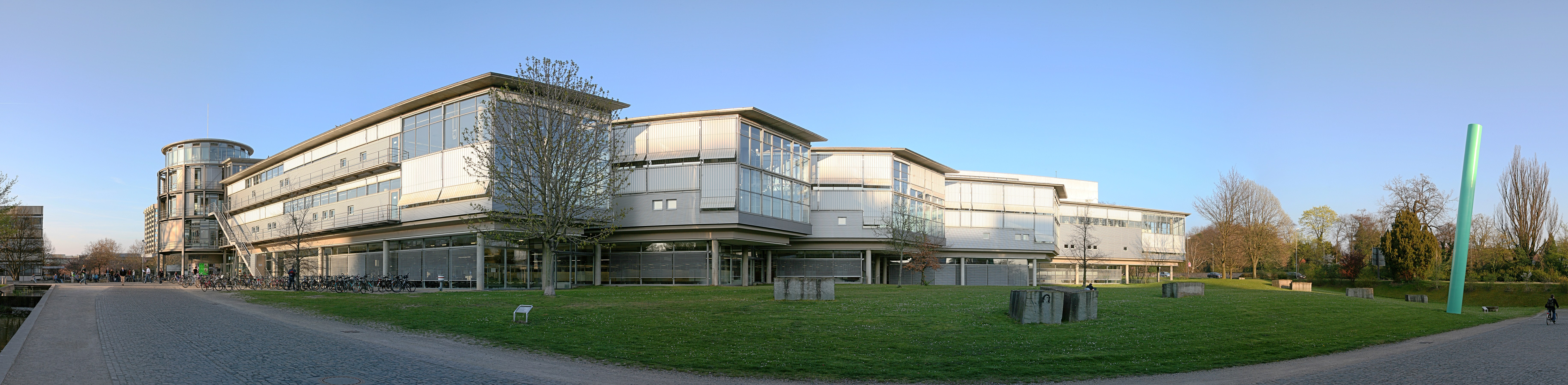 State- and University Library, Göttingen, Germany